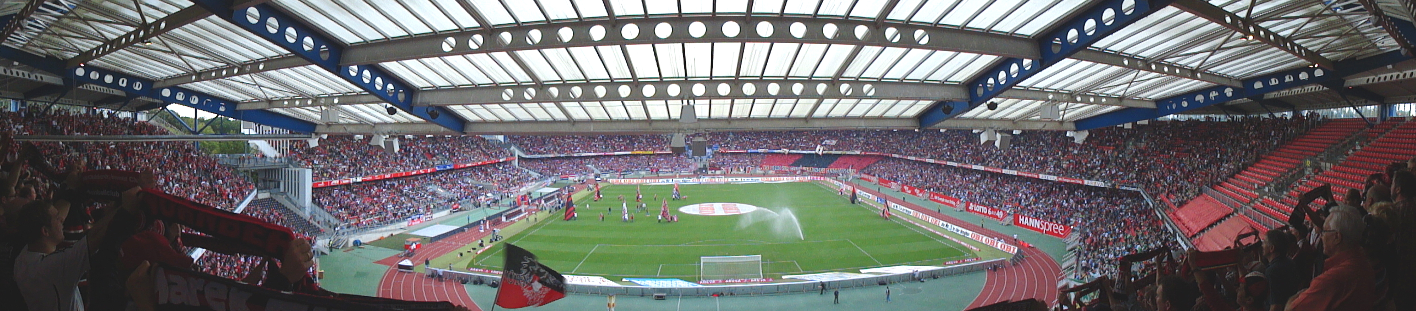 Inner view of Nuremberg stadium in Nuremberg, Germany heading Nordkurve, during the soccer game of 1. FC Nürnberg and SV Werder Bremen